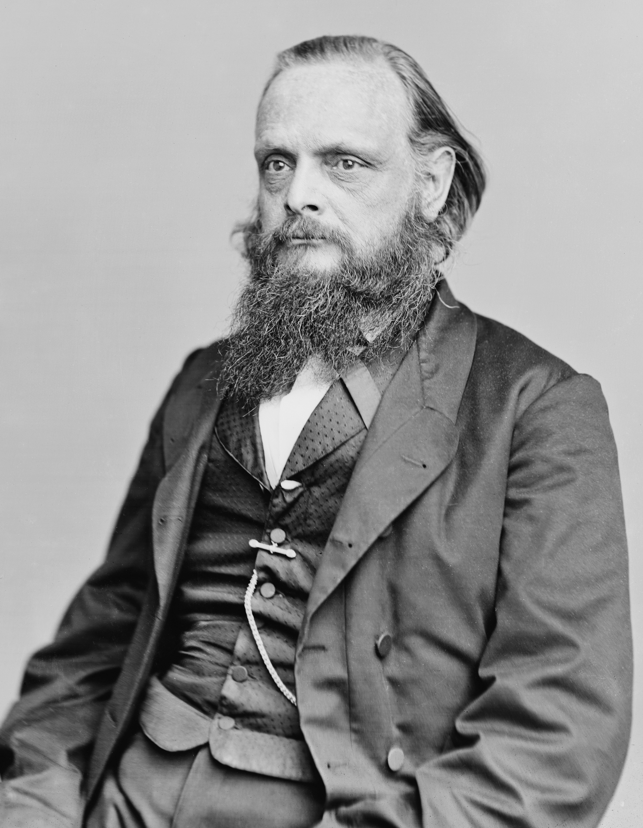 John Curtiss Underwood (March 14, 1809 - December 7, 1873) was a lawyer, Abolitionist politician, and federal judge.